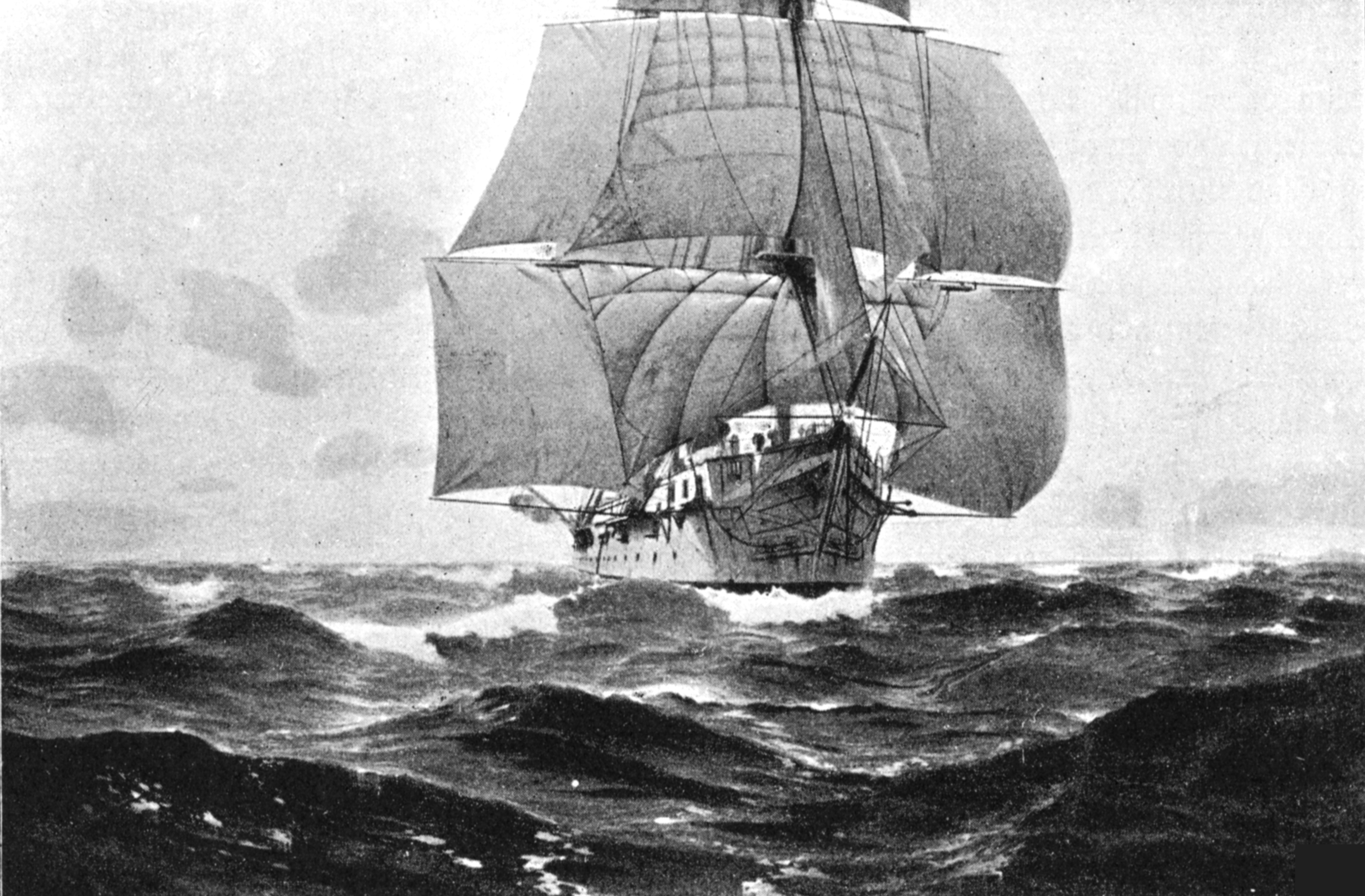 German corvette Moltke under sail, c. 1895